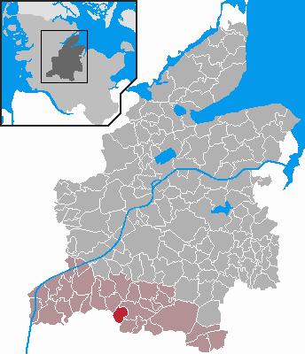 Locator maps of municipalities in Schleswig-Holstein - District Rendsburg-Eckernförde